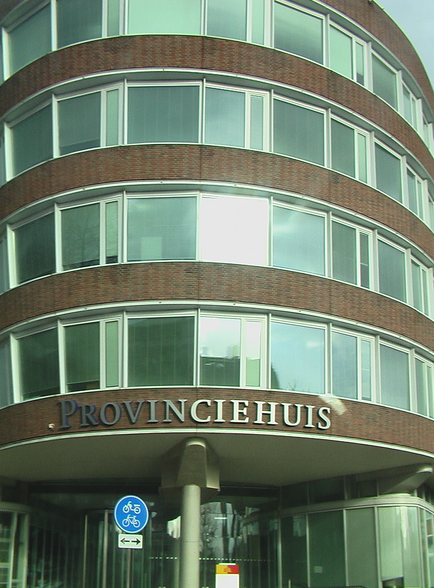 head quarter of South-Holland, a "provincie" of The Netherlands